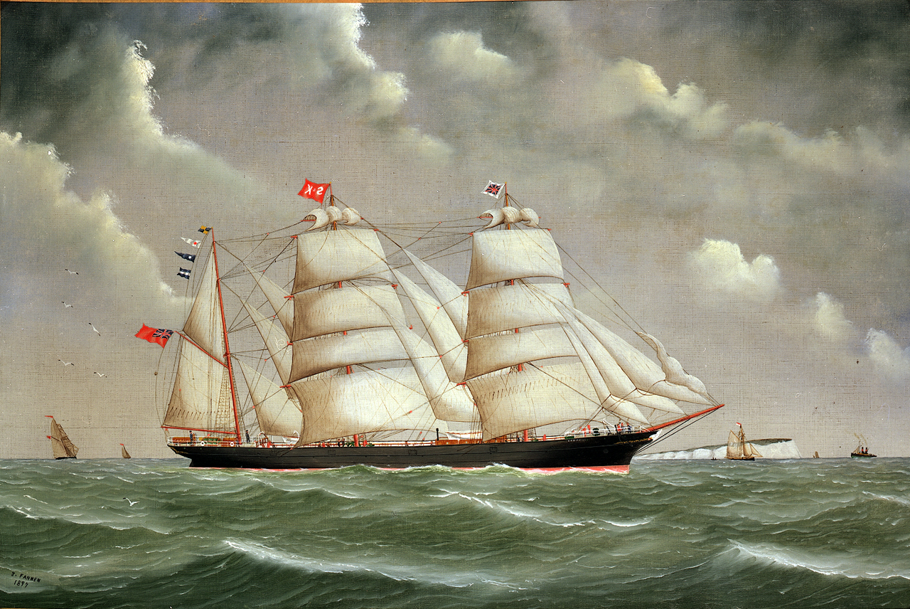 The barque Camphill A portrait of the three-masted barque ‘Camphill’ shown broadside view in full sail in a calm sea. She flies the red ensign and is shown off the Channel with white cliffs in the distance on the right. The barque is shown in fair weather surrounded by other shipping. The ‘Camphill’ was built in 1889 and she sailed between Liverpool and Valpariaso. The painting is one of a pair with BHC3679 and is signed and dated ‘J. Fannen 1897’. The barque ‘Camphill’